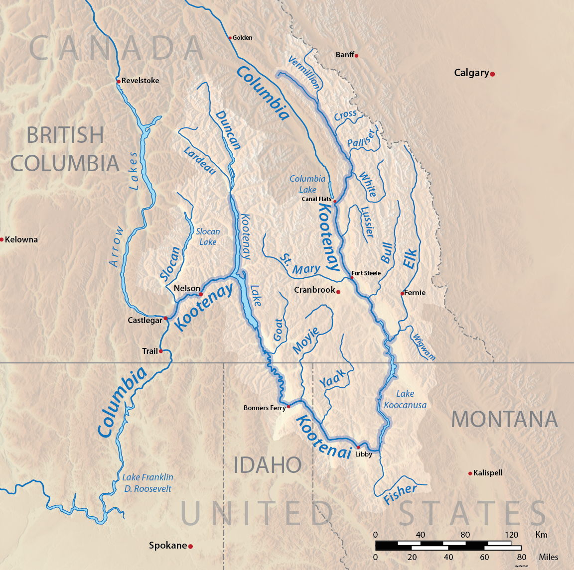 Map of the Kootenay River watershed in British Columbia, Canada and Montana/Idaho, USA, showing tributaries cities topography and lakes. Created using USGS shaded relief data.